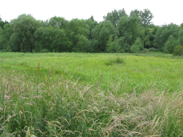 Saltersford Marsh on the River Witham just South of Grantham